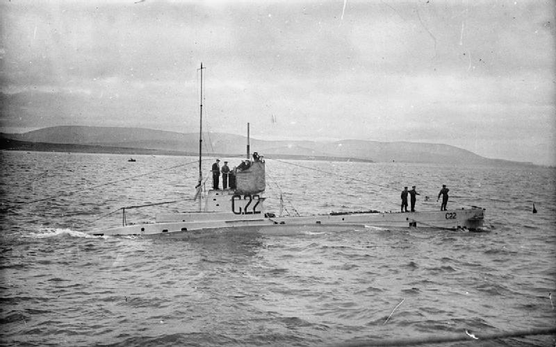 Photograph of British submarine C 22.